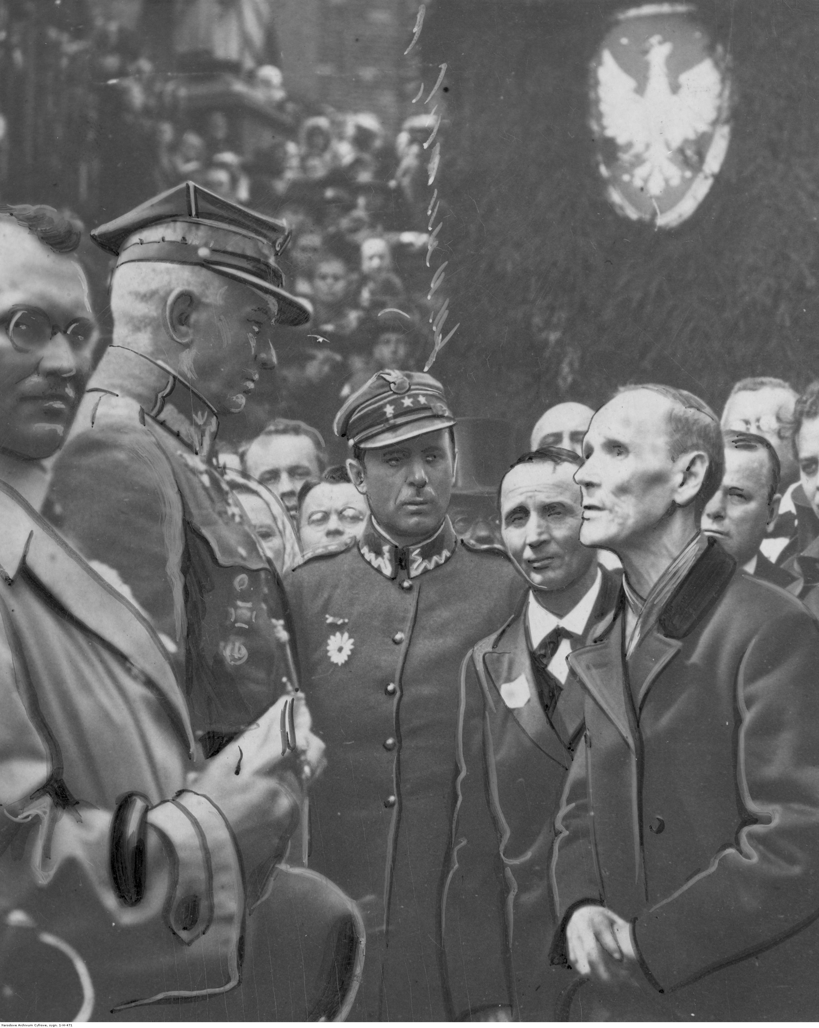 Entry of the Polish army to Silesia, reception in Piekary Śląskie. General Stanisław Szeptycki (1867–1950) in conversation with the folk poet Wawrzyniec Hajda (1844–1923).